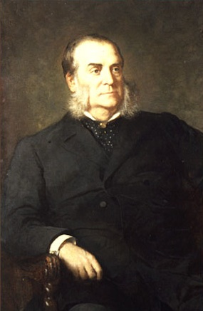 Charles J. Folger, former United States Secretary of the Treasury